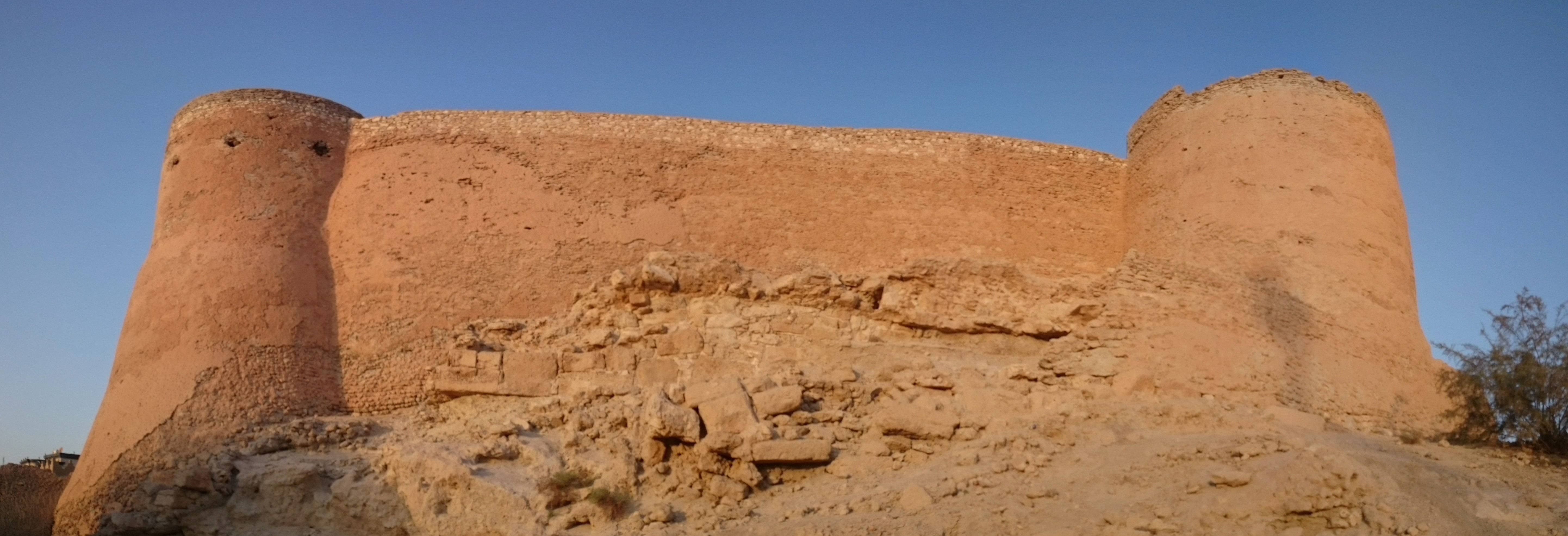 view of Tarout castle, Tarout island, Qatif, Saudi Arabia